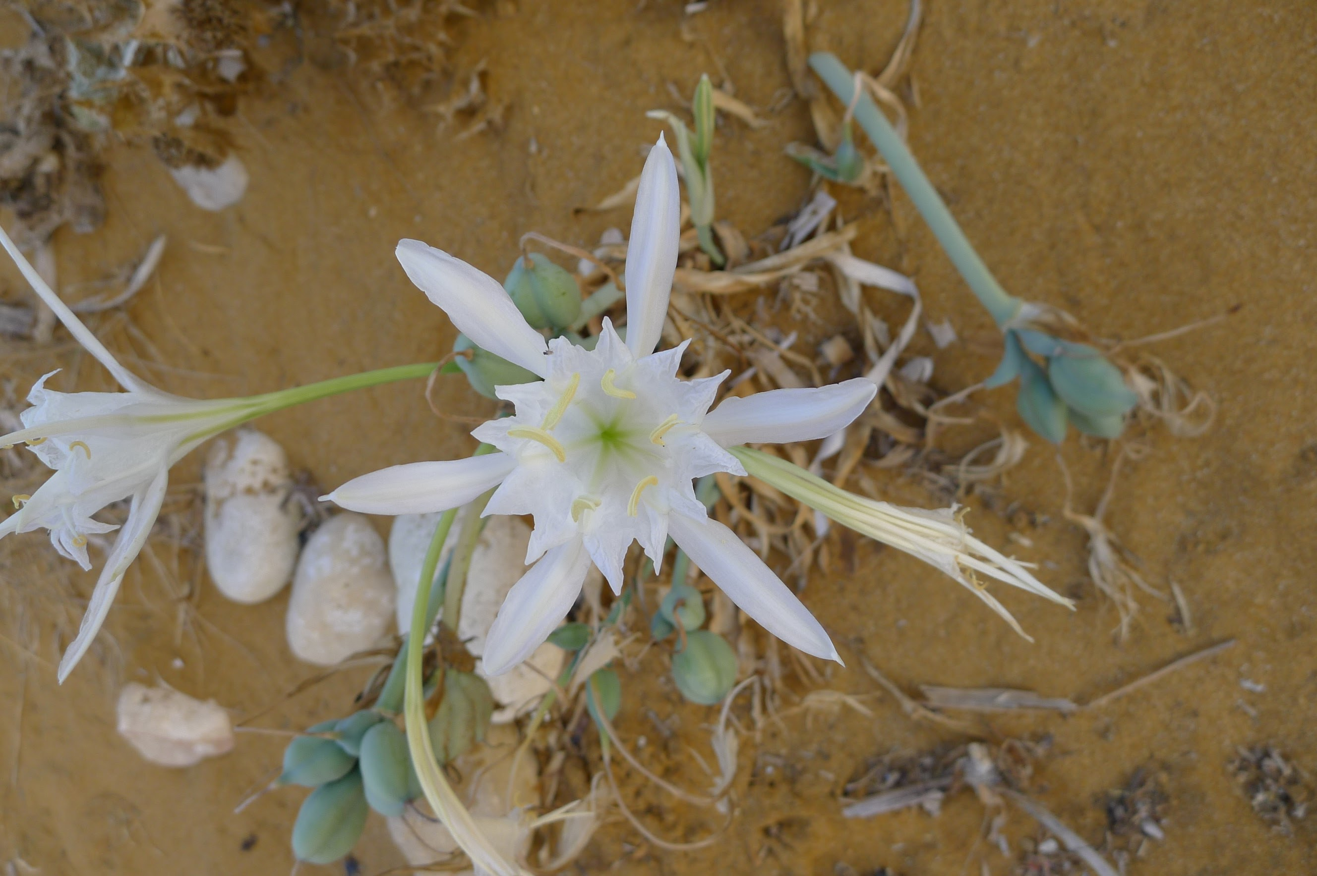 Sea Daffodil, (Pancratium maritimum), Ramla bay, 2012 Malti: Narcis il-bahar (Pancratium maritimum), Ir-Ramla l-Ħamra, 2012